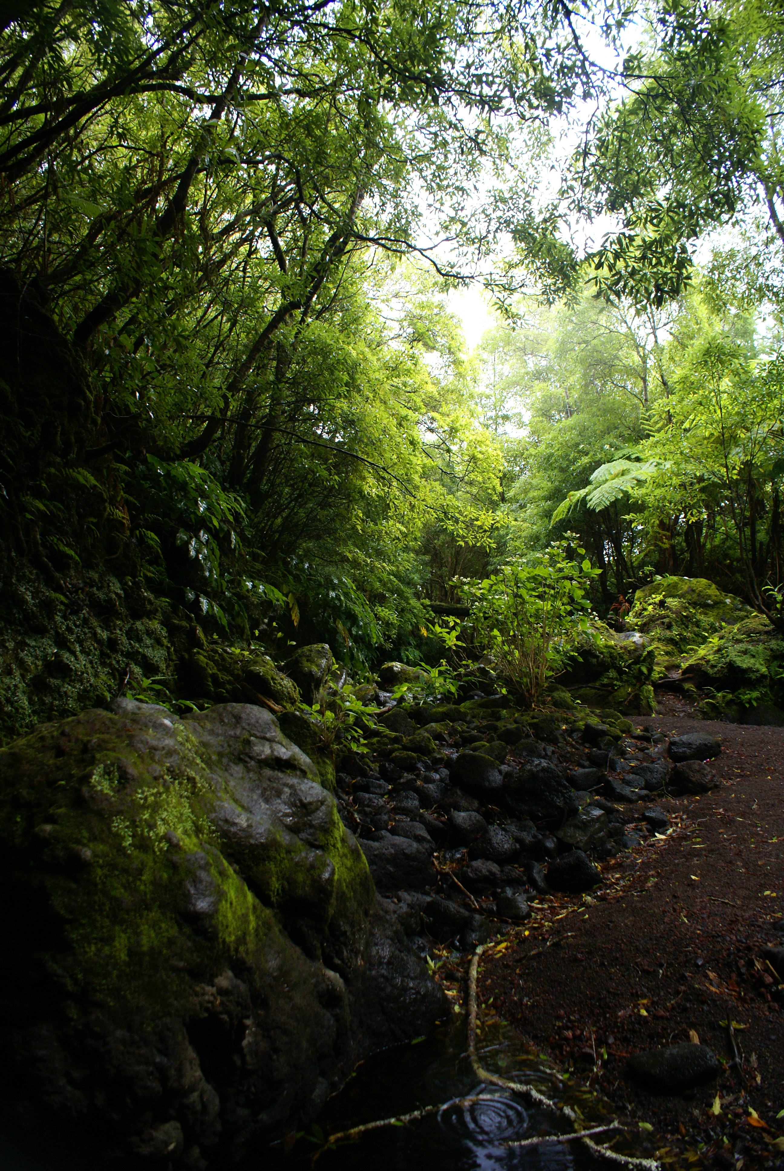 Poça das Asas, 3 concelho da Horta, ilha do Faial, Açores, Portugal